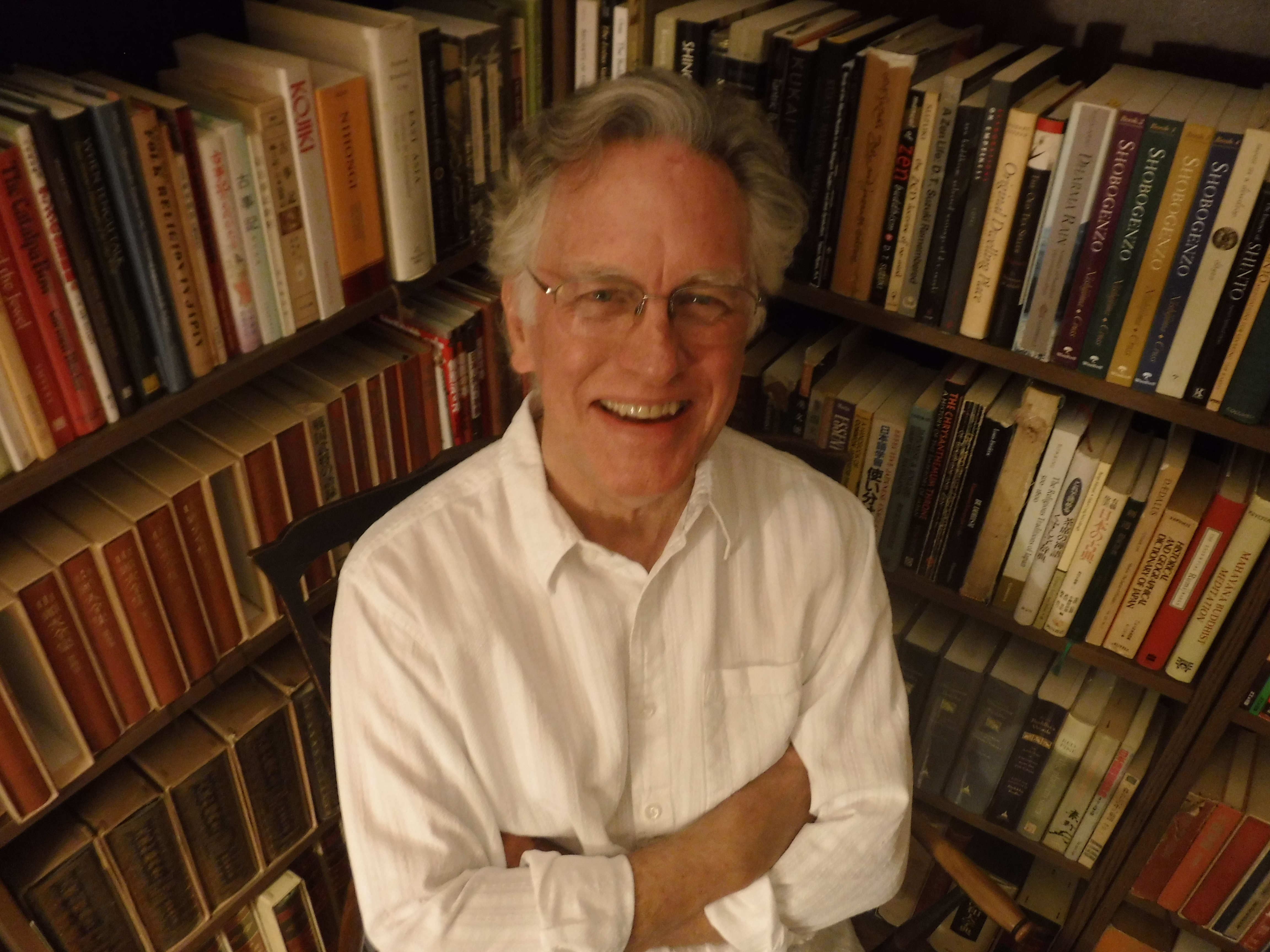 Wilson in his library